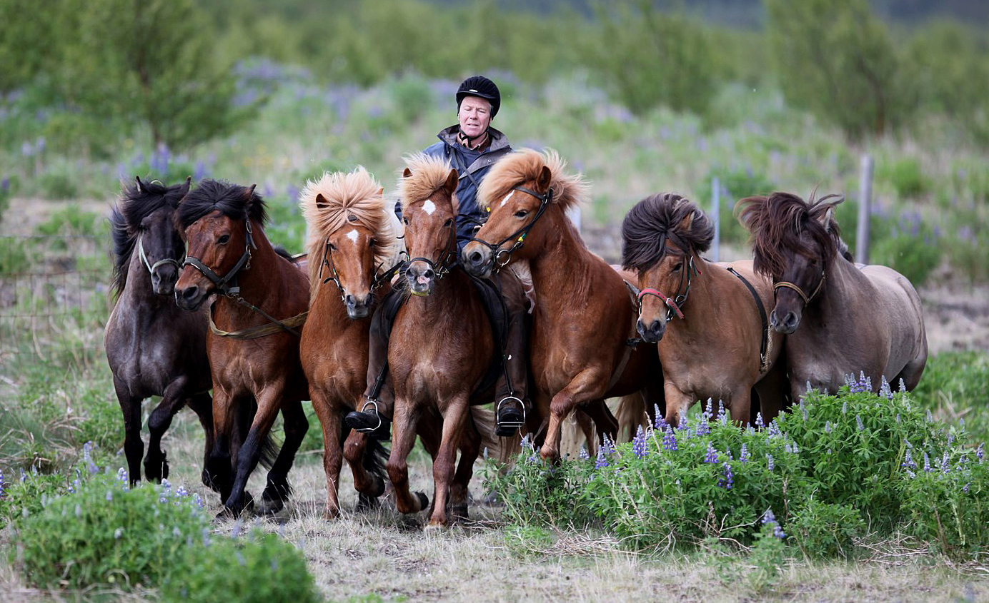 A man walking several (7) horses alongside riding one.